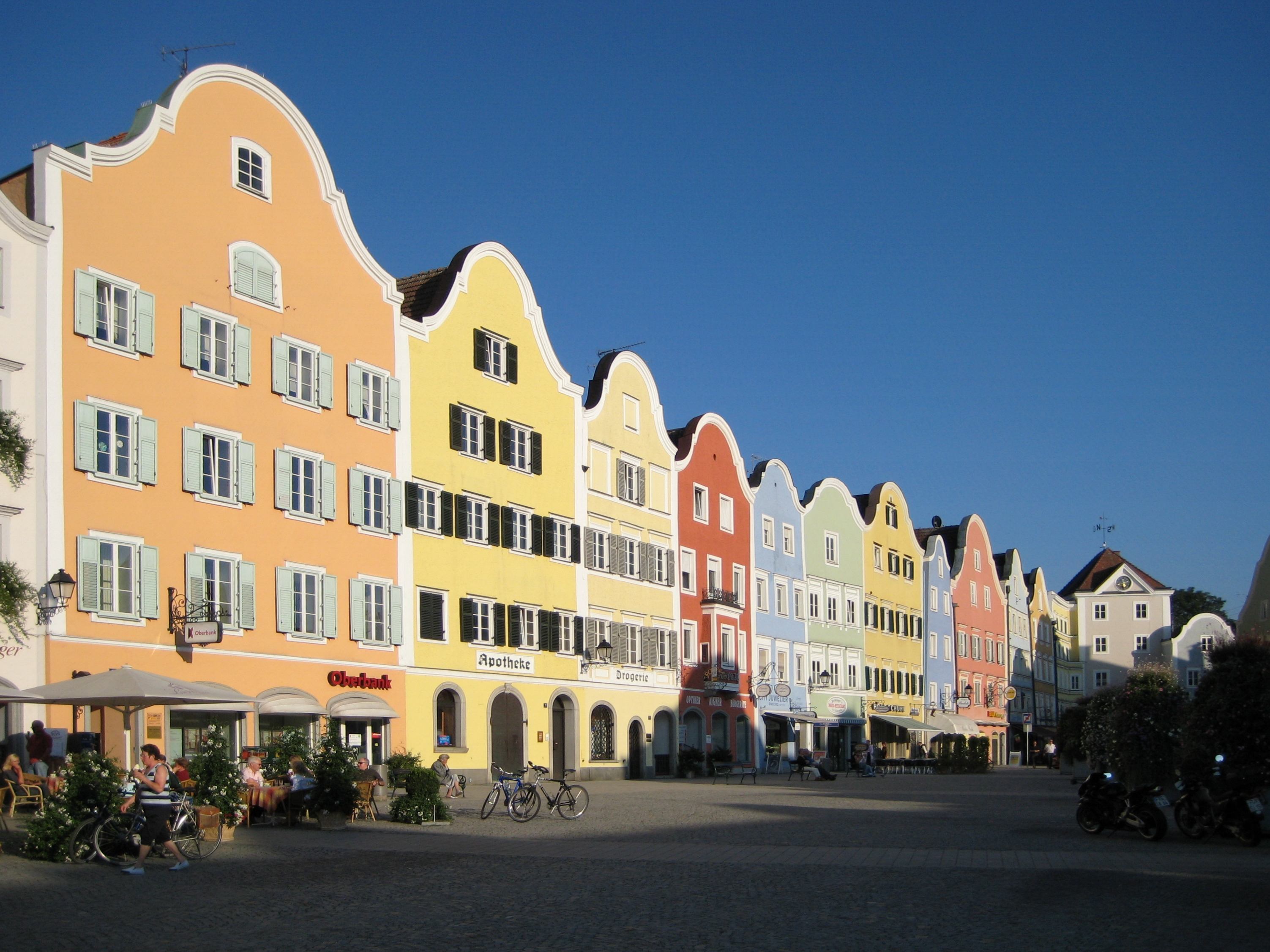 Schärding